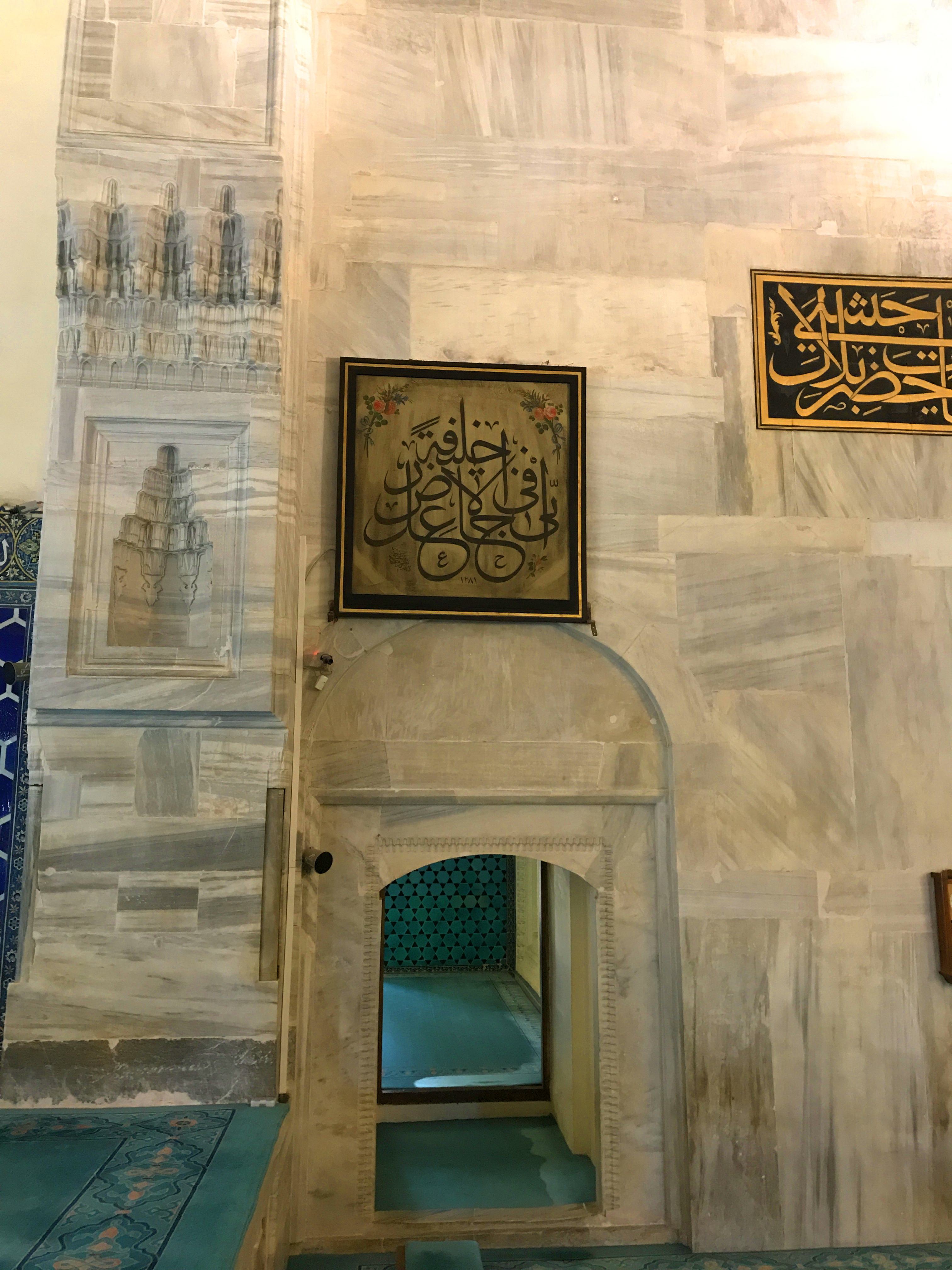 Green Mosque of Bursa, Turkey, 2017. Green Mosque (Turkish: Yeşil Camii, "Yeşil Mosque"), also known as Mosque of Sultan Mehmed I, is a part of the larger complex (a külliye) located on the east side of Bursa, Turkey, the former capital of the Ottoman Turks before they captured Constantinople in 1453. The complex consists of a mosque, türbe, madrasah, kitchen and bath.